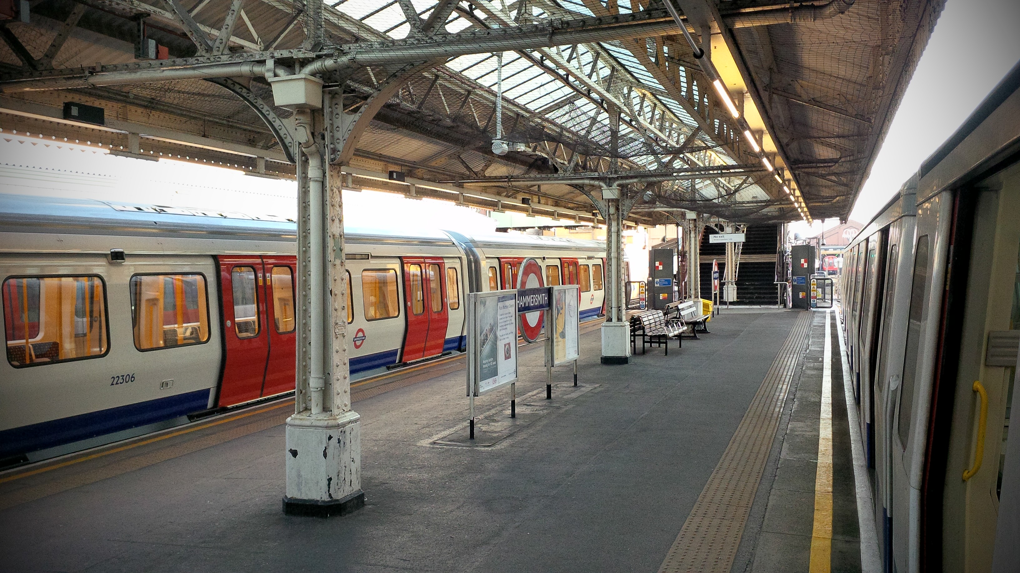 Interior of the Hammersmith station (Hammersmith & City and Circle lines), 2013